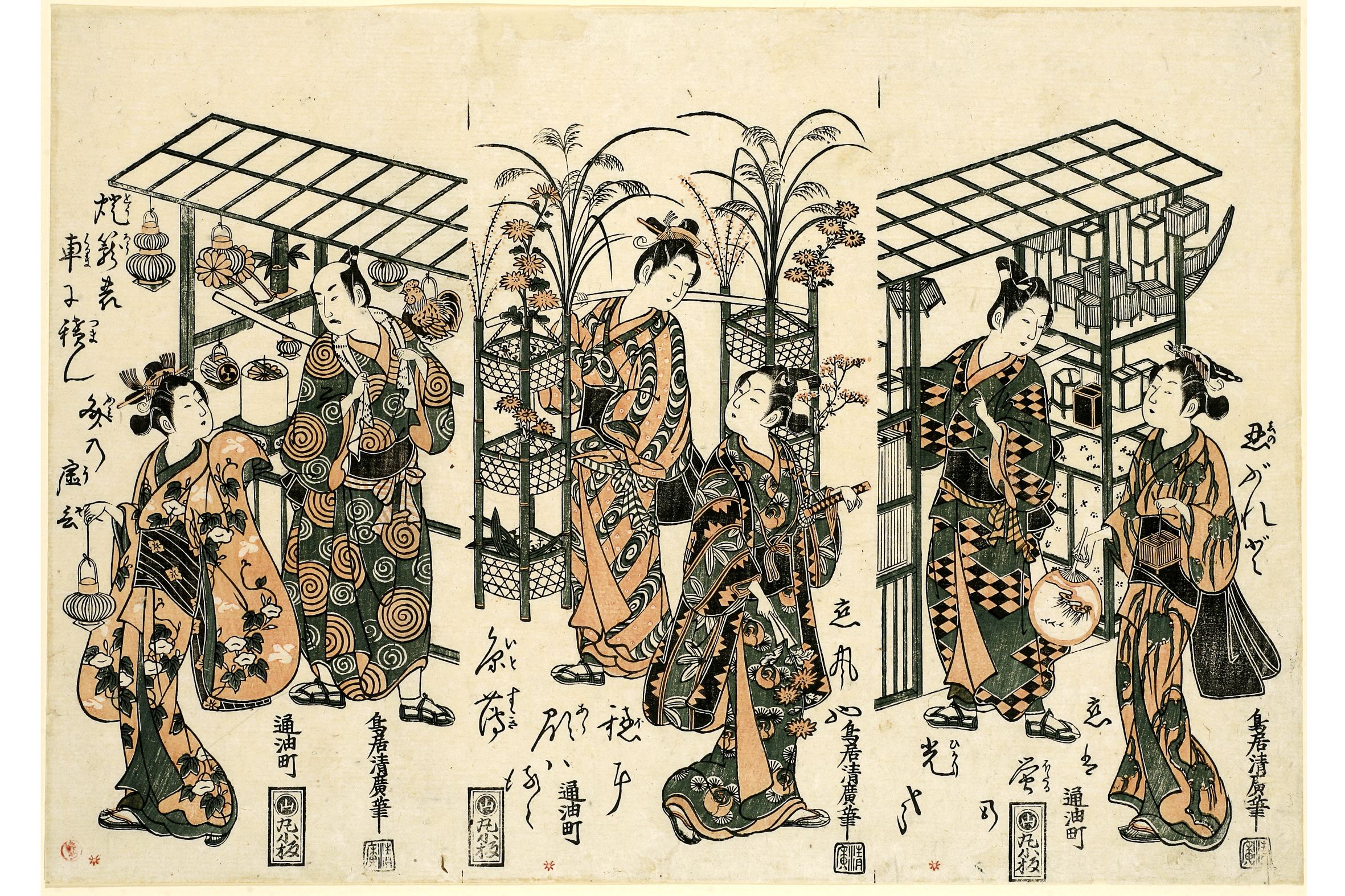 Torii Kiyohiro Three Street Vendors Selling Goods for Autumn c. 1750 Publisher’s seal: Tōriabura-chō and yama maruko han (Maruya Kohei); Printed together for individual sale, 3 hosoban, 30.6 x 43.9 cm; benizuri-e Vendor of cricket cages (right); seller of autumn flowers (middle); lantern seller (left)